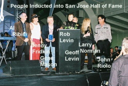 People at Hall of fame induction San Jose